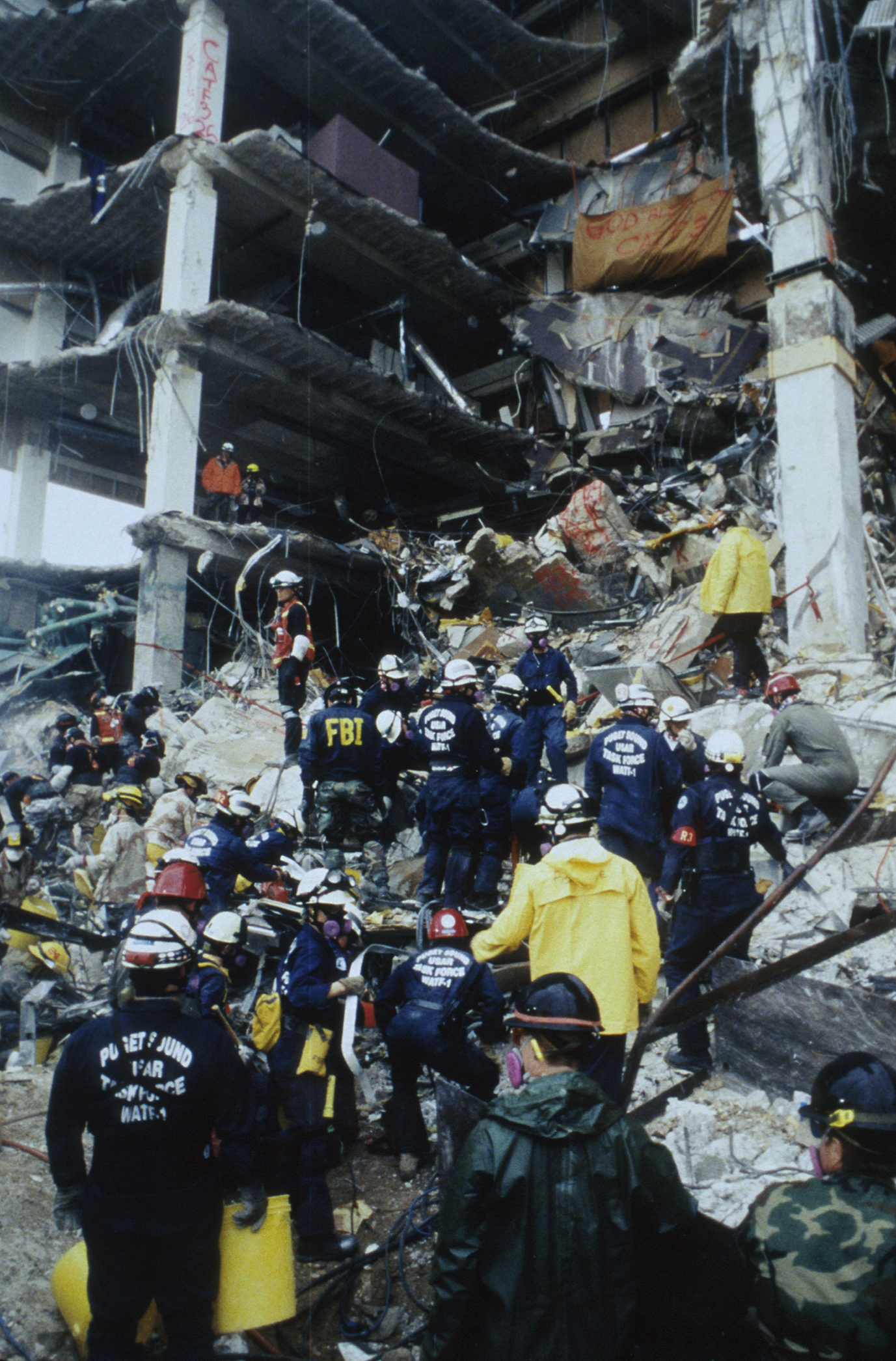 Oklahoma City, OK, April 26, 1995 -- Search and Rescue workers gather at the scene of the Oklahoma City bombing. FEMA News Photo